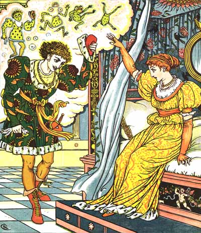 The Frog Prince, Princess Belle-Etoile, Aladdin and the Wonderful Lamp.